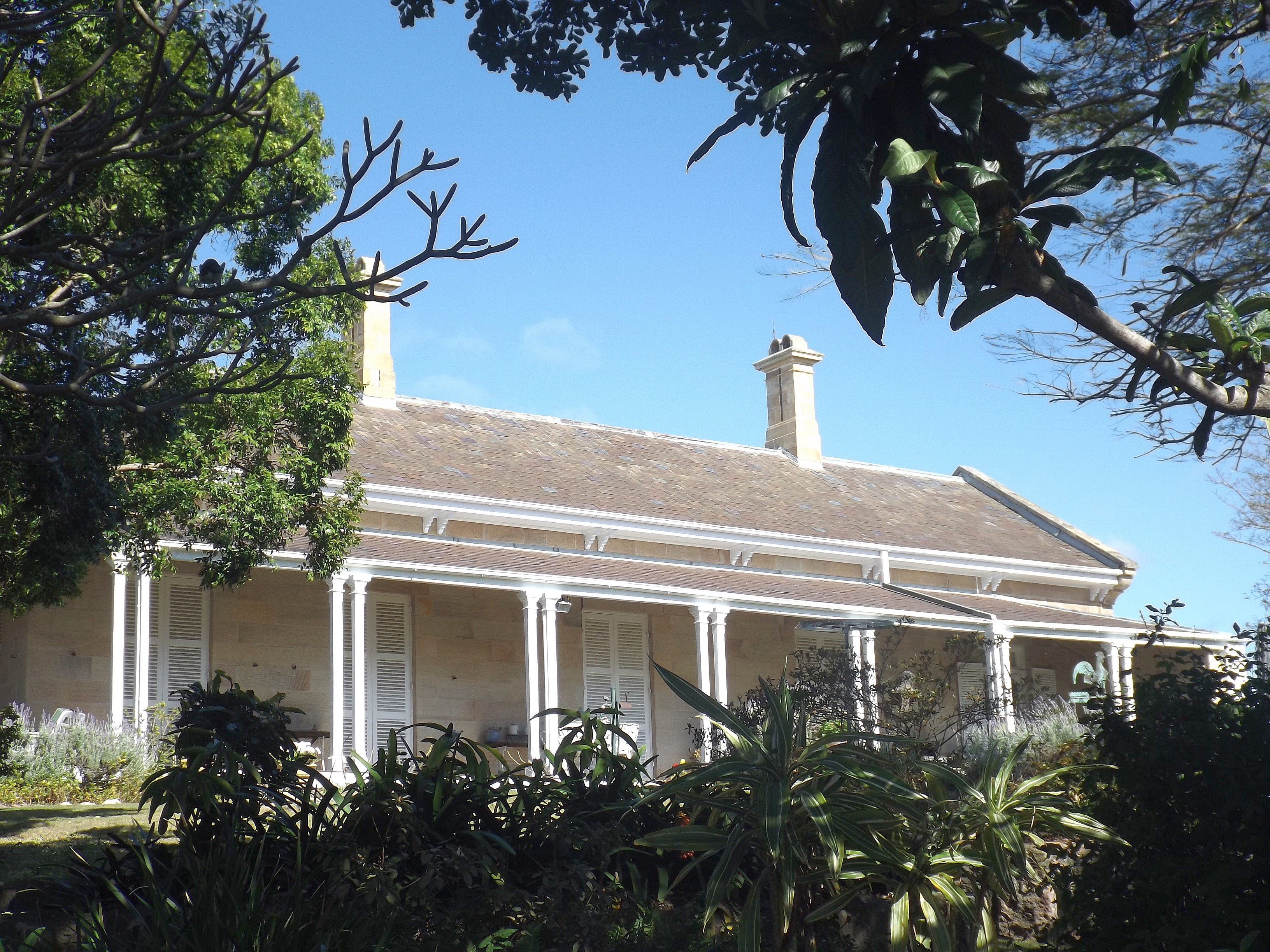 Photo of Oakwal at Windsor, Brisbane, Queensland, Australia.